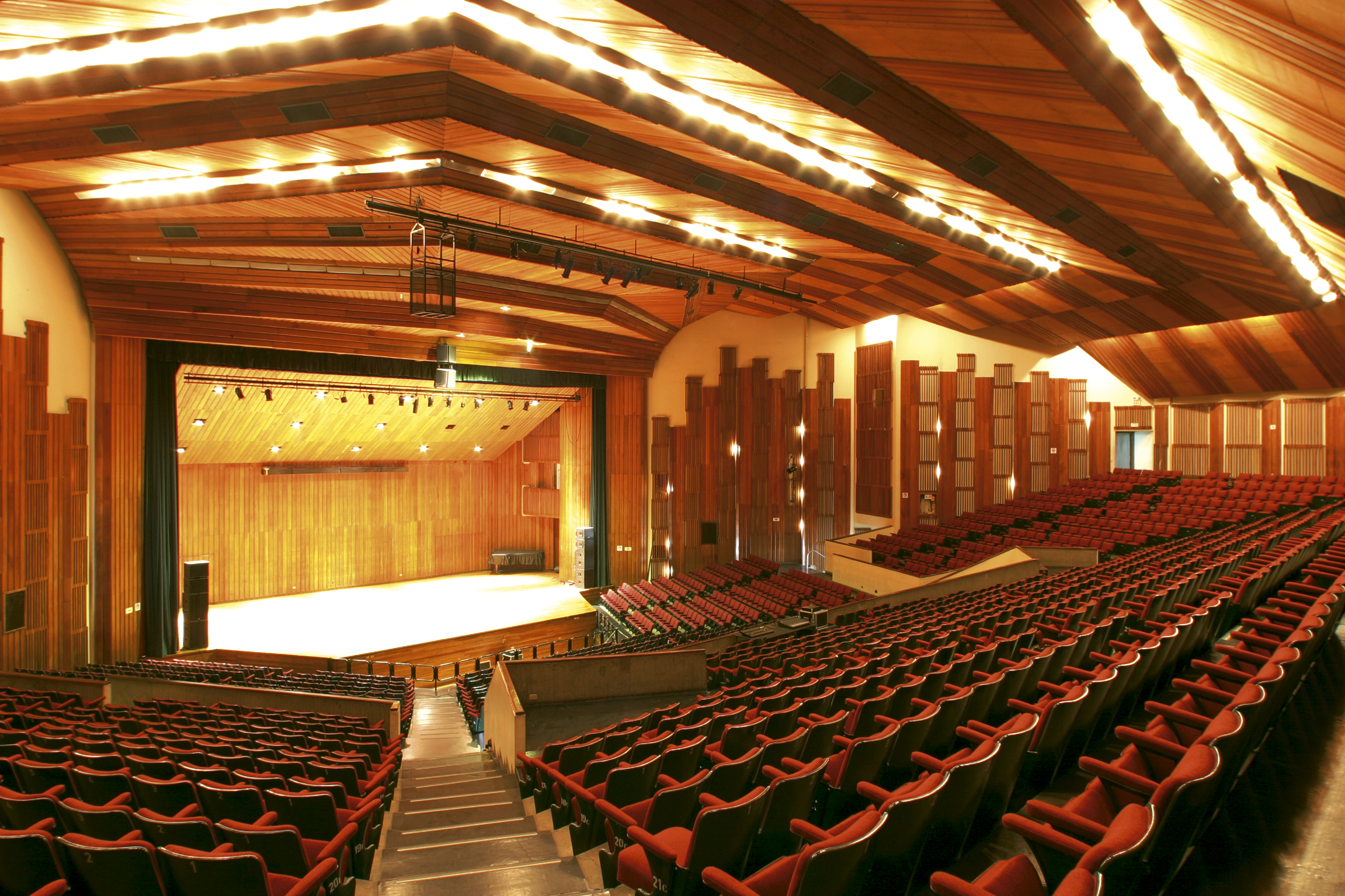 León de Greiff Auditorium, National Monument since 1996.